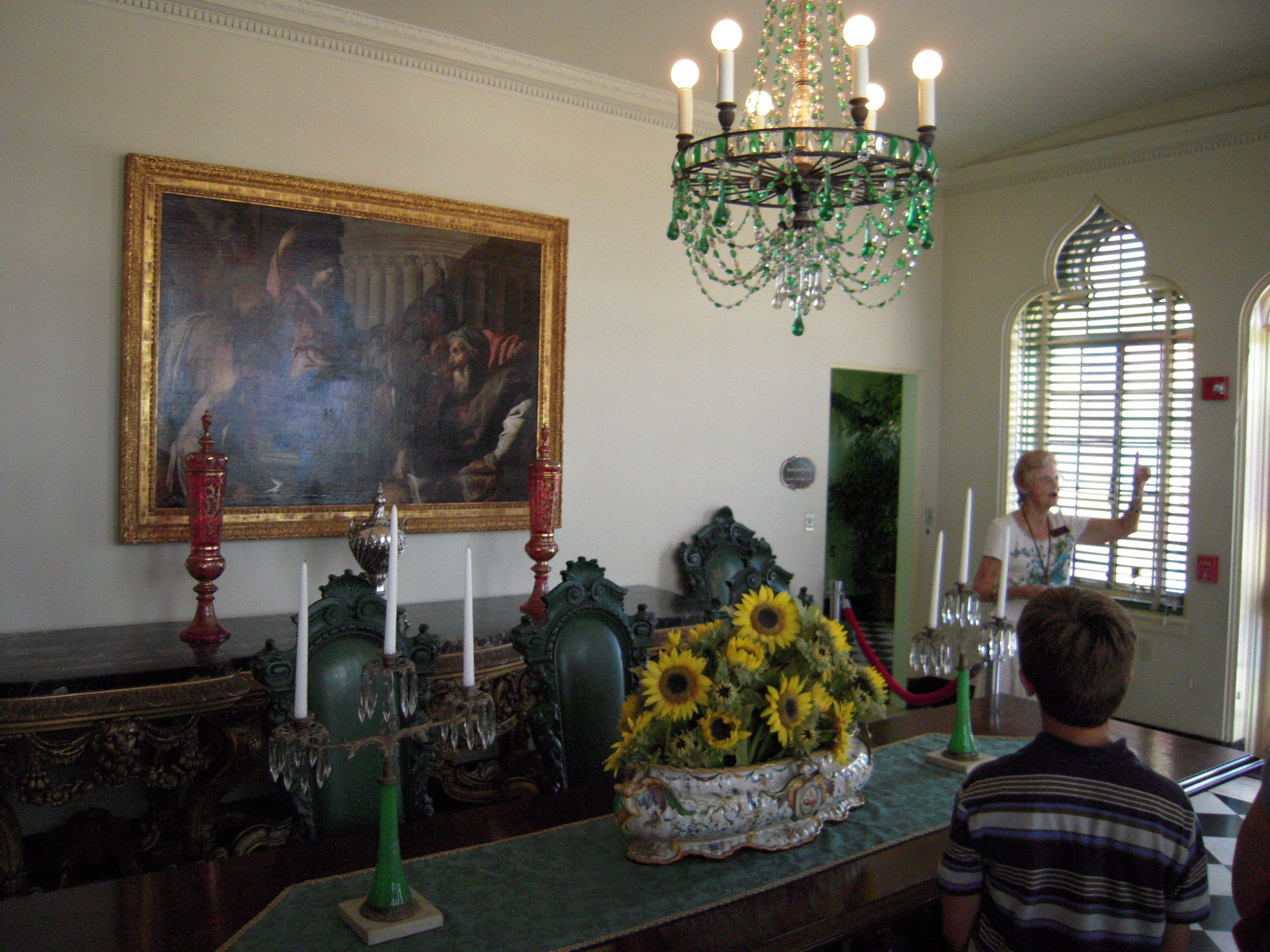 A tour guide gives describes an eating area in The Cà d’Zan in Sarasota, Florida, United States